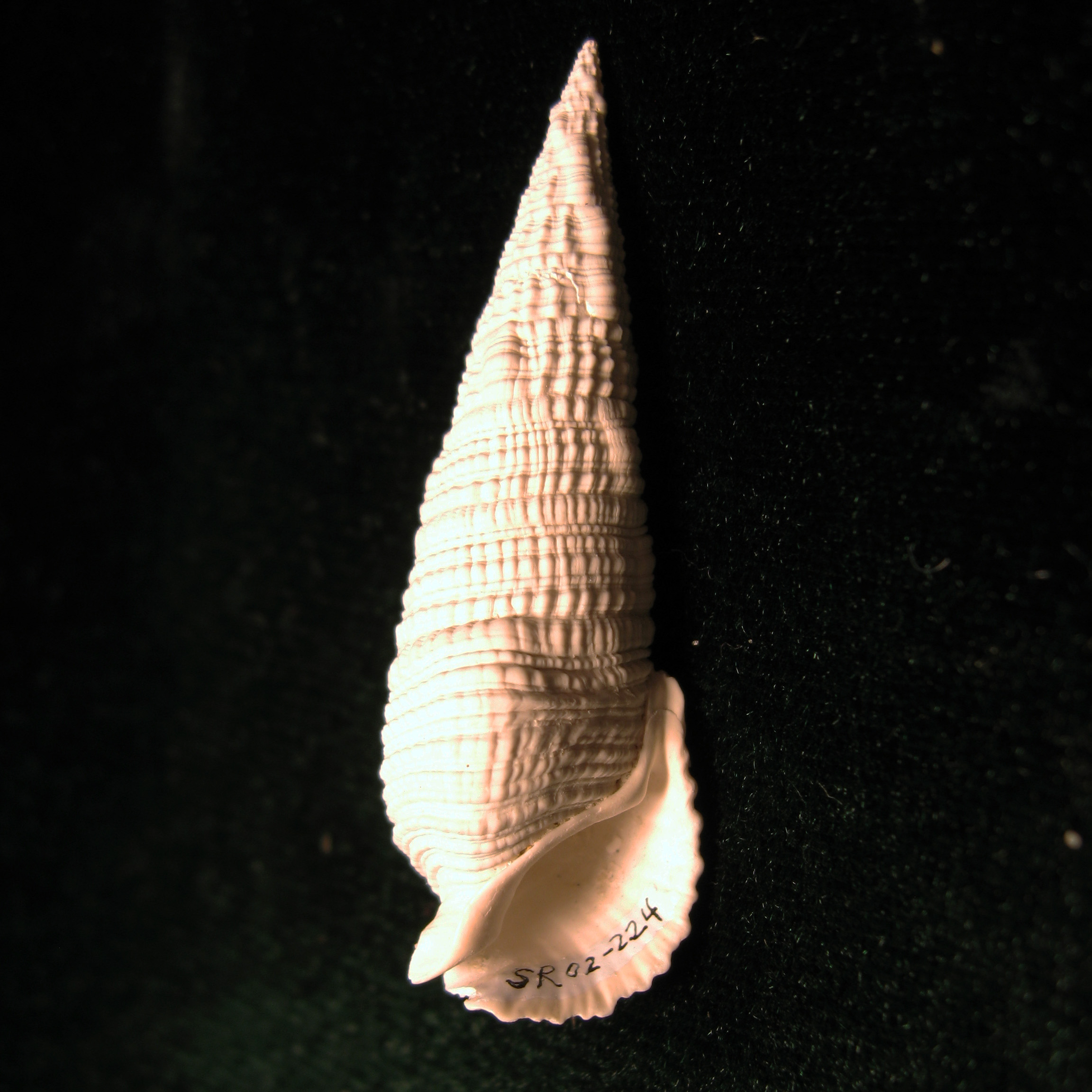 A fossil Cerithium dalli Olsson & Petit shell ~4.5cm long. Lower Pliocene (~3.7 million years old); Big Cypress, Tulane University locality #1044, Pinecrest Beds, Tamiami Formation; Sarasota, Florida, USA; Stonerose Interpretive Center, Joe Turon shell collection, #SR 02-224